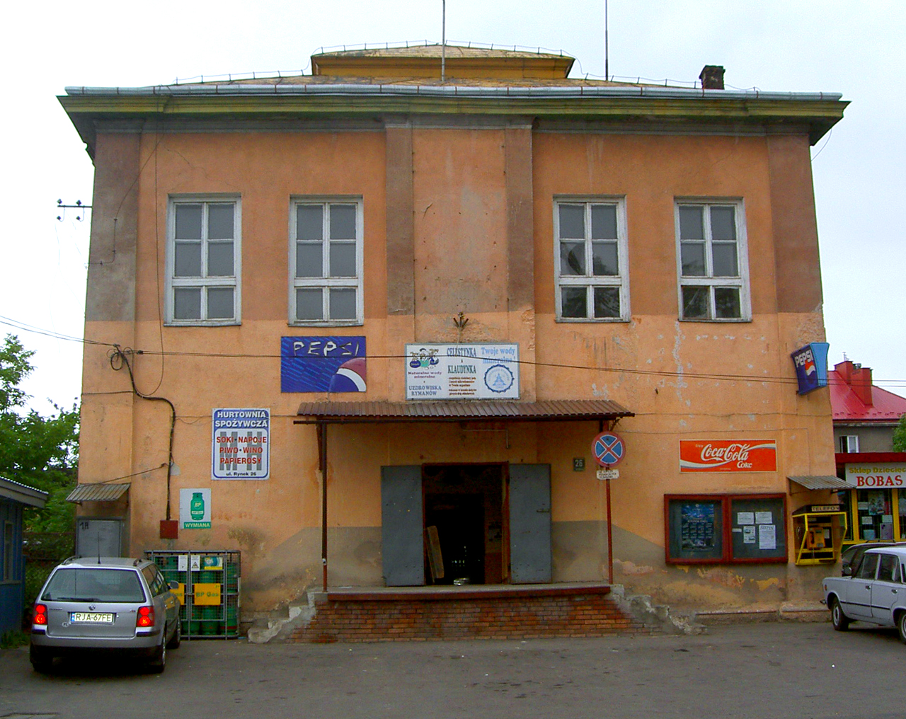 Synagogue in Radmno, Poland